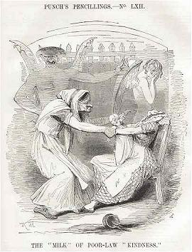 Punch Cartoon from 1843 criticizing the Poor Law